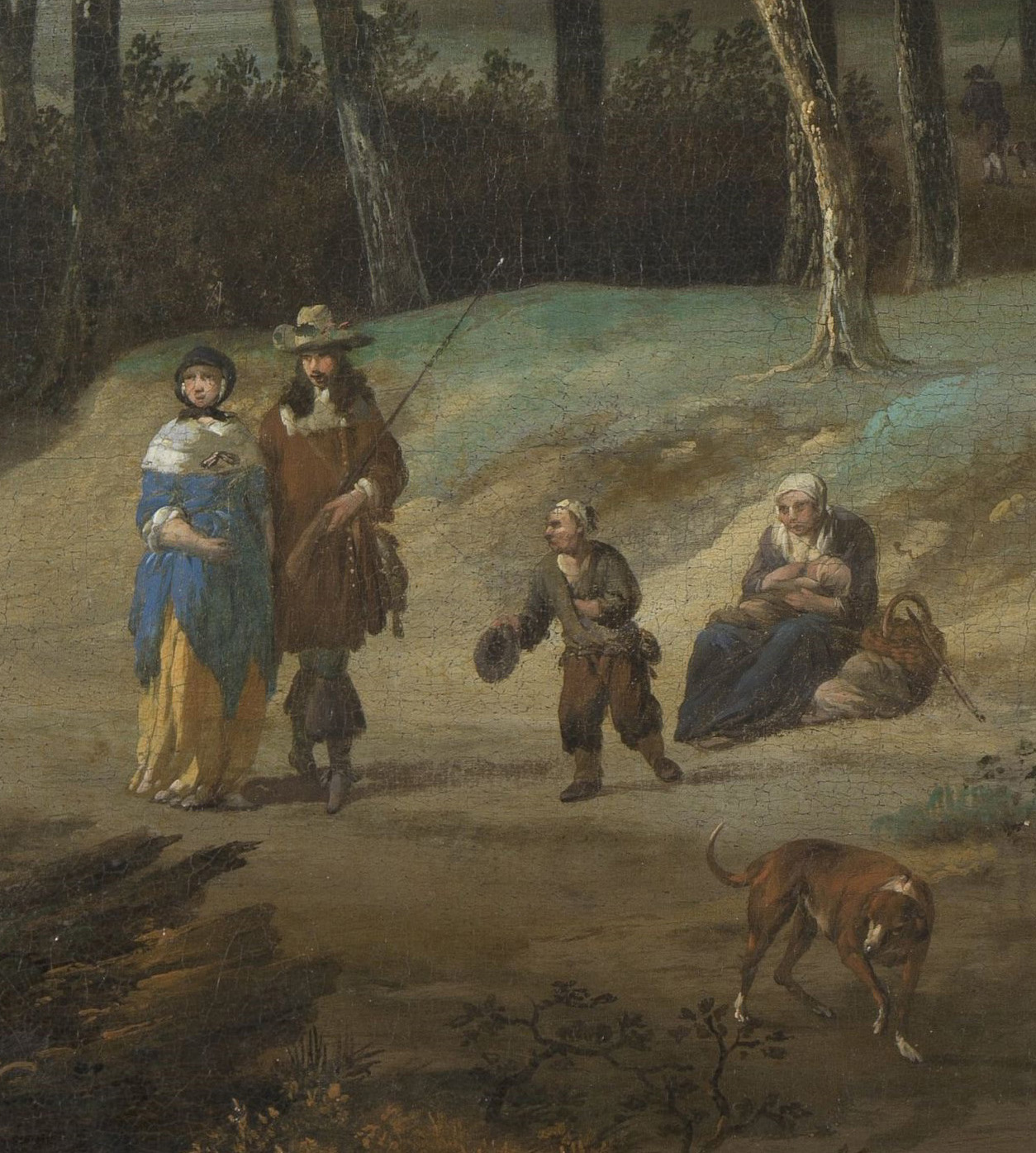 Forest Road, detail.